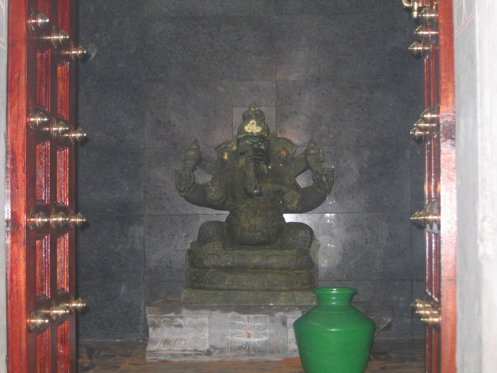 Karpaga Vinayagar -Nilali Goundampalayam